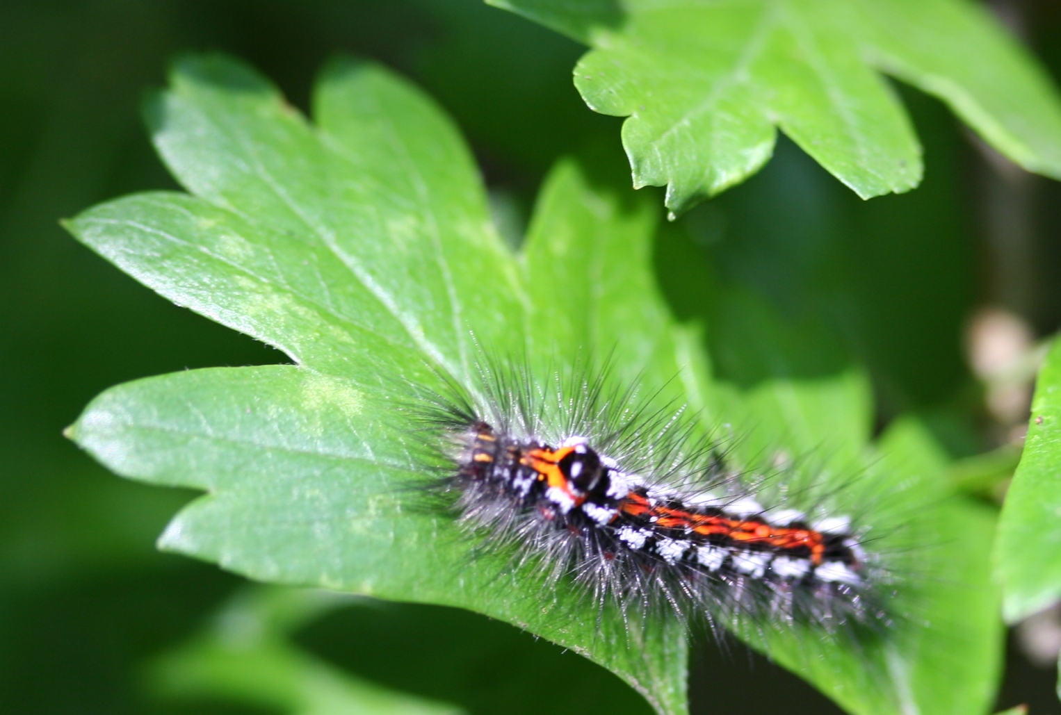 Euproctis similis 28 May 2006 IJmuiden, the Netherlands